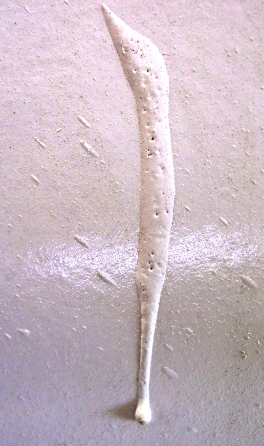 A paint sag with pinholes